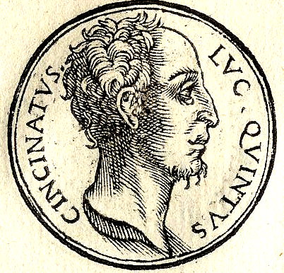 Cincinnatus was an ancient Roman aristocrat and political figure, serving as consul in 460 BC.